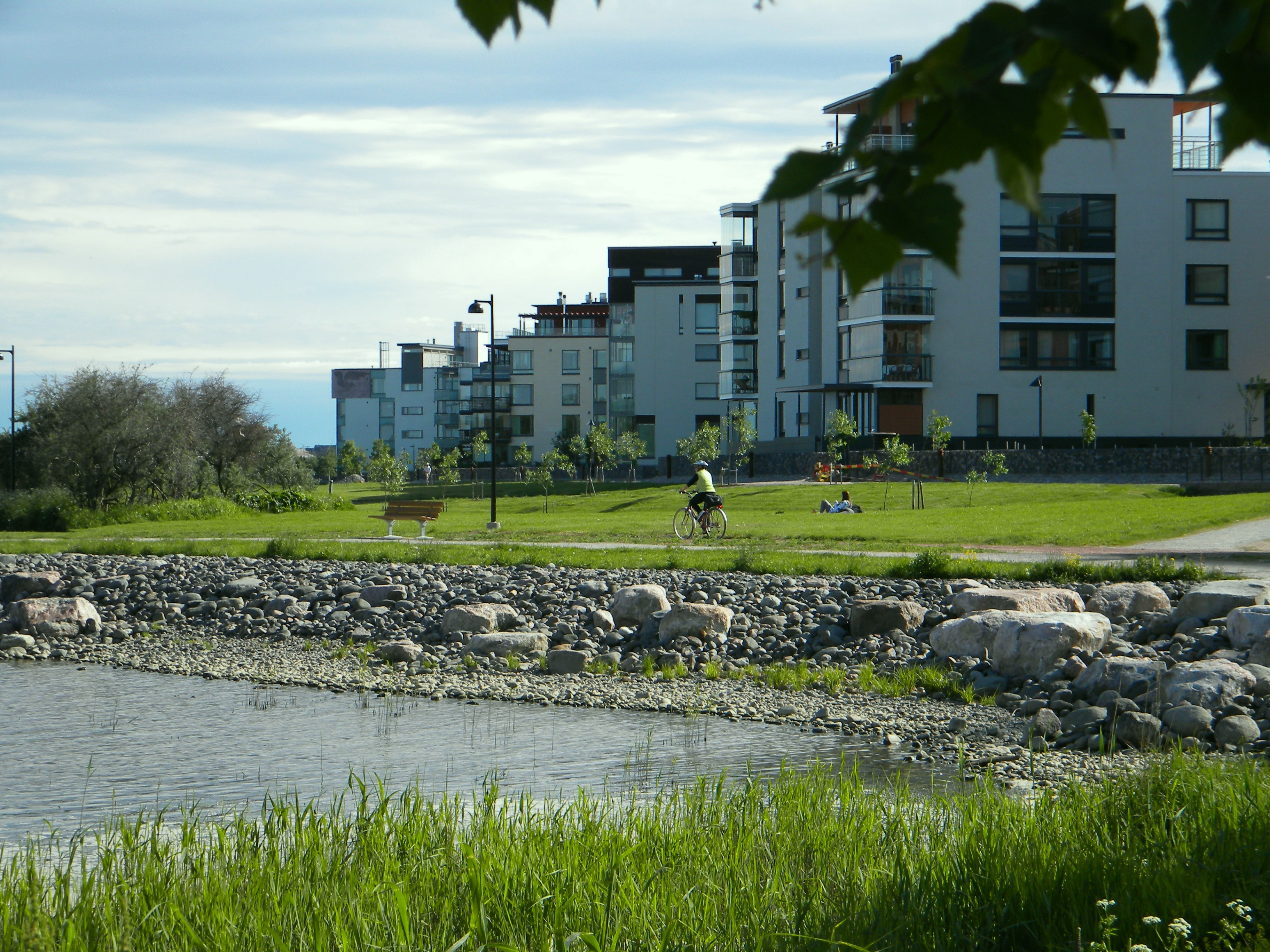 Arabianranta in Helsinki.